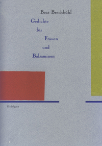 Book cover of Beat Brechbühl, "Gedichte für Frauen und Balsaminen" 2006